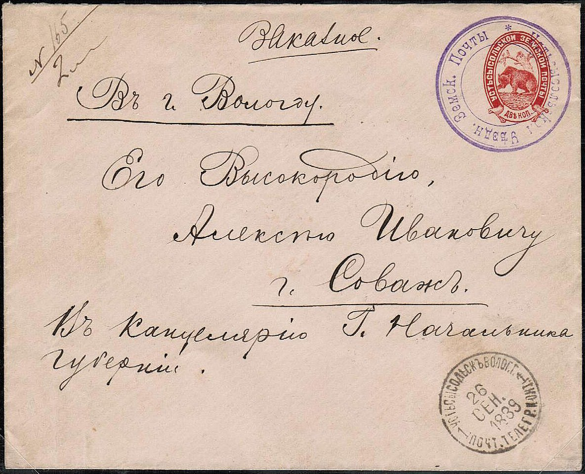 Ustsysolsk Uyezd Zemstvo Cover, 2 kopecks, Russia.